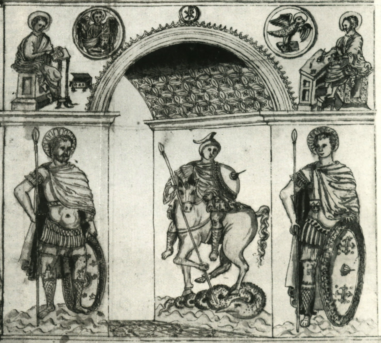 Drawing of the 'Arcus Einhardi', probably the silver foot of a crux gemmata (reliquary cross decorated with gems) formerly in the Treasury of the Basilica of Saint Servatius in Maastricht (lost since the 18th c.). Drawing by unknown artist, 17th c, now in the Bibliothèque nationale de France in Paris. Detail of central part of the drawing, depicting on the inside of the arch a Roman horseman (perhaps Constantine the Great) trampling and piercing a dragon. On the back of the arch two soldier saints (both with nimbus) with lances and shields. Above the arch a Chi Rho monogram. In the corners of the arch the two evangelists with their respective symbols: Saint Matthew (angel) and Saint John (eagle).